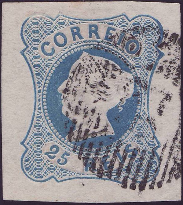 Portugal postage stamp, 1853, Queen Maria II, 25 Reis